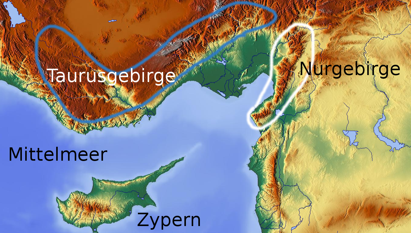 Maps of Turkey; Nurgebirge, Gavur Daglari, from